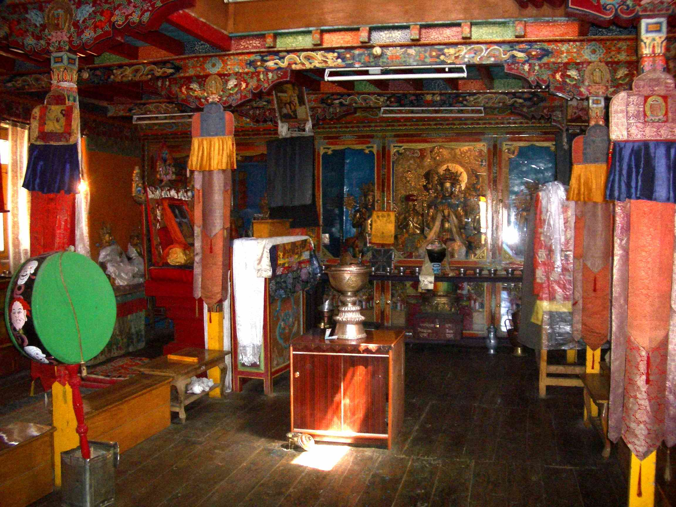 I took this photo myself inside Tangyud Gompa in 2004